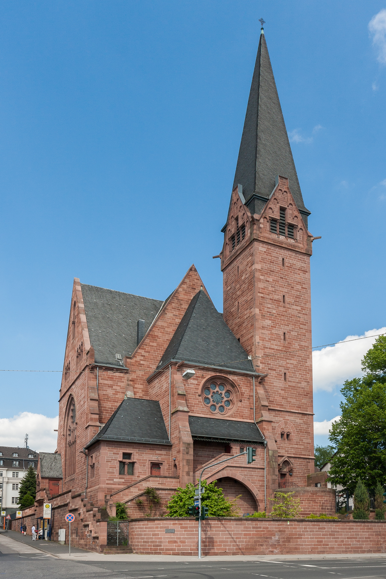 Southern front of the Oranier-Gedächtniskirche, Wiesbaden-Biebrich